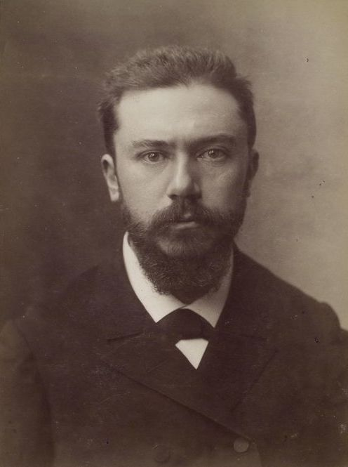 The French writer Gustave Geffroy (1855-1926)